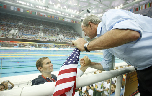 President George W. Bush shakes hands with U.S. swimmer Larsen Jensen after the 22-year-old won his bronze medal in the 400-meter freestyle Sunday, Aug. 10, 2008, at the 2008 Summer Olympics.